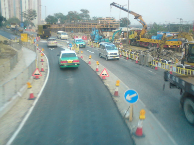 Expand of Ping Ha Road (Towards Tin Shui Wai)